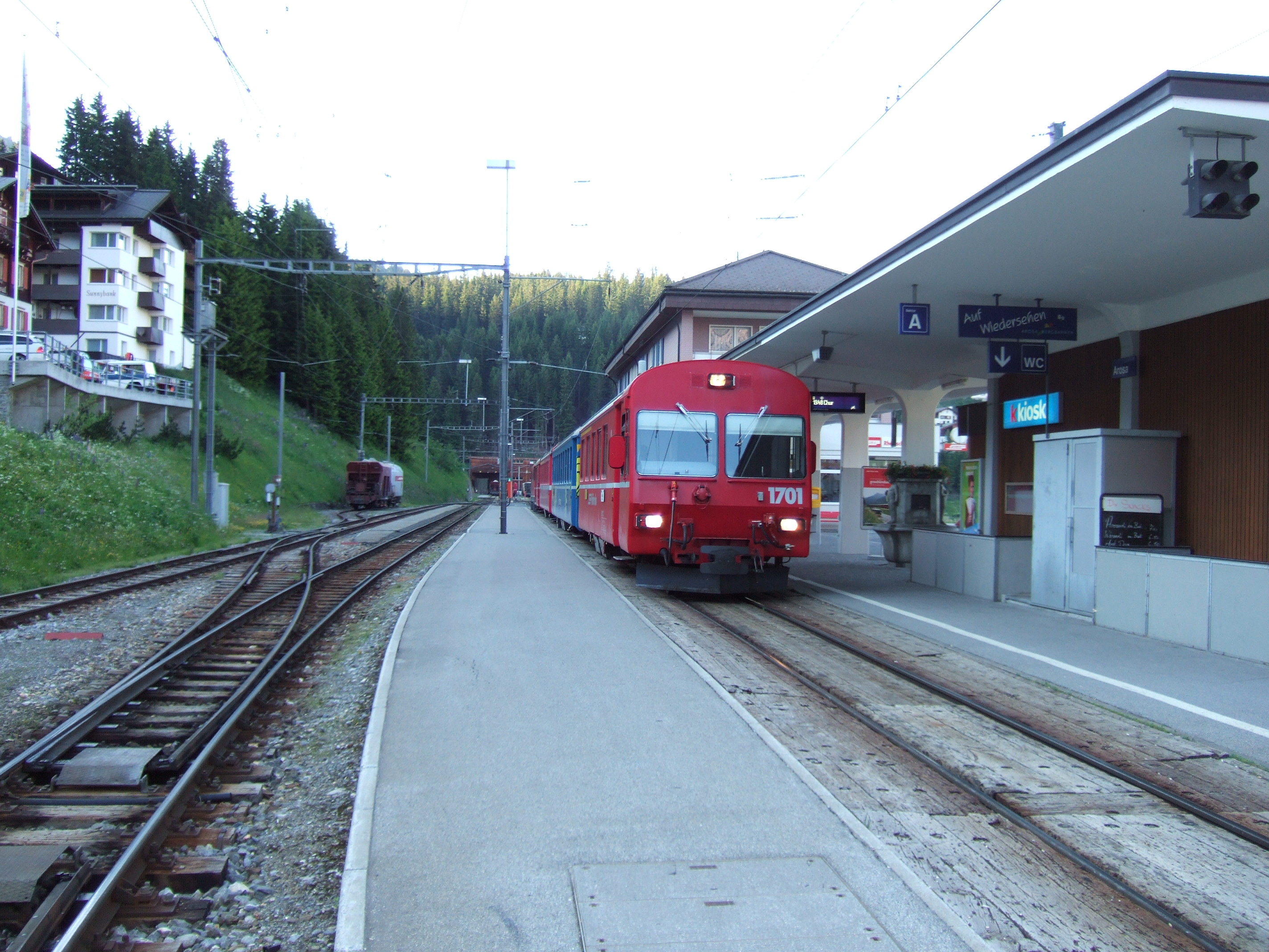 Arosa, Switzerland